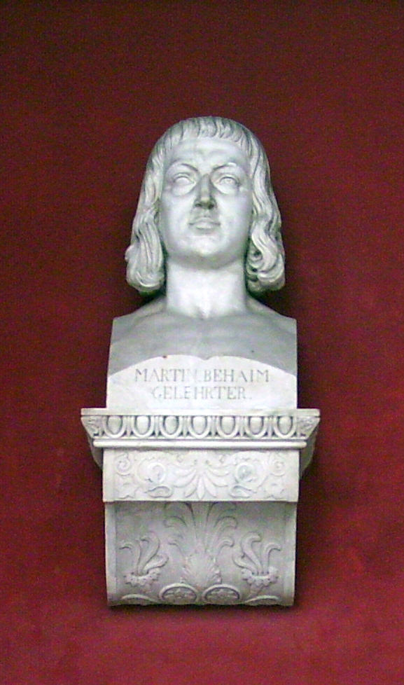 Bust of Martin Behaim at Ruhmeshalle ("Hall of fame"), München, Germany. Picture taken by myself: Dominik Hundhammer, München, 27 March 2006.